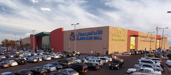 Alandalus Mall Panoramic view